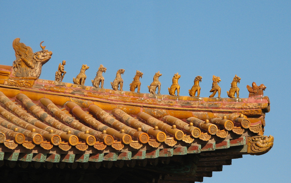 Roof sculptures at the Forbidden City in Beijing